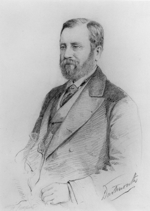 Pencil drawing of William Legge (1823–1891), 5th Earl of Dartmouth, by Frederick Sargent, 1870s.